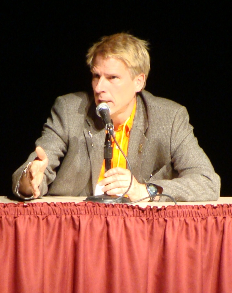 Kristof Koch, at the Toward a Science of Consciousness Conference, Tucson, Arizona, 2008